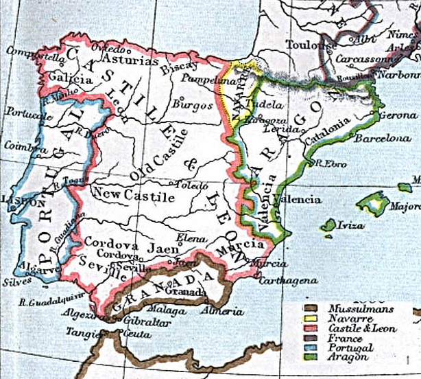 The Iberian Peninsula in 1360.